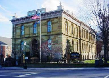 Fairfield County (Ohio) Courhouse